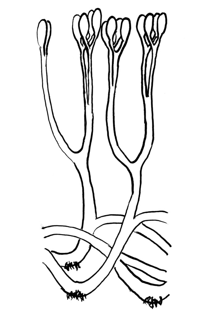 Aglaophyton majora, diagram of reconstruction of this Devonian Landplant